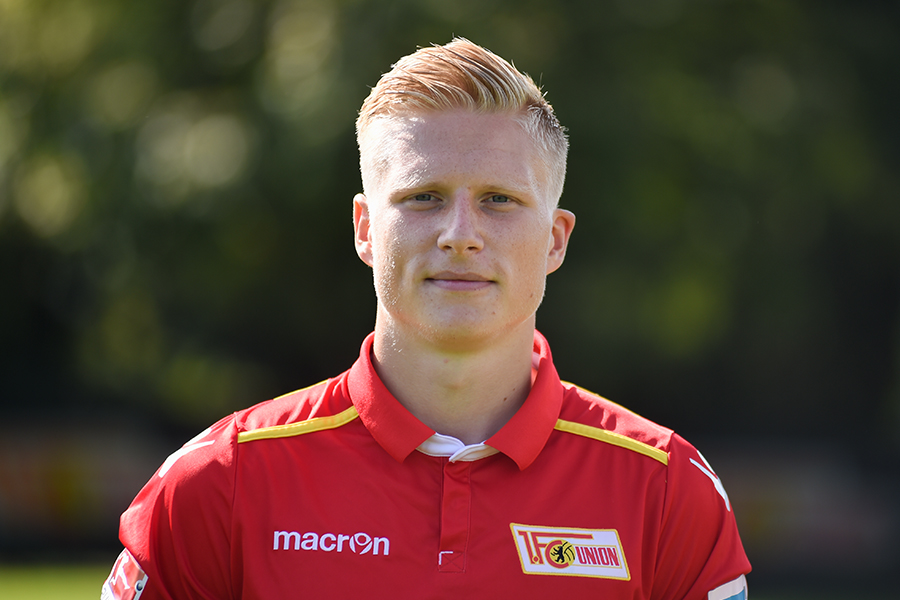 Teamfoto 2016/17